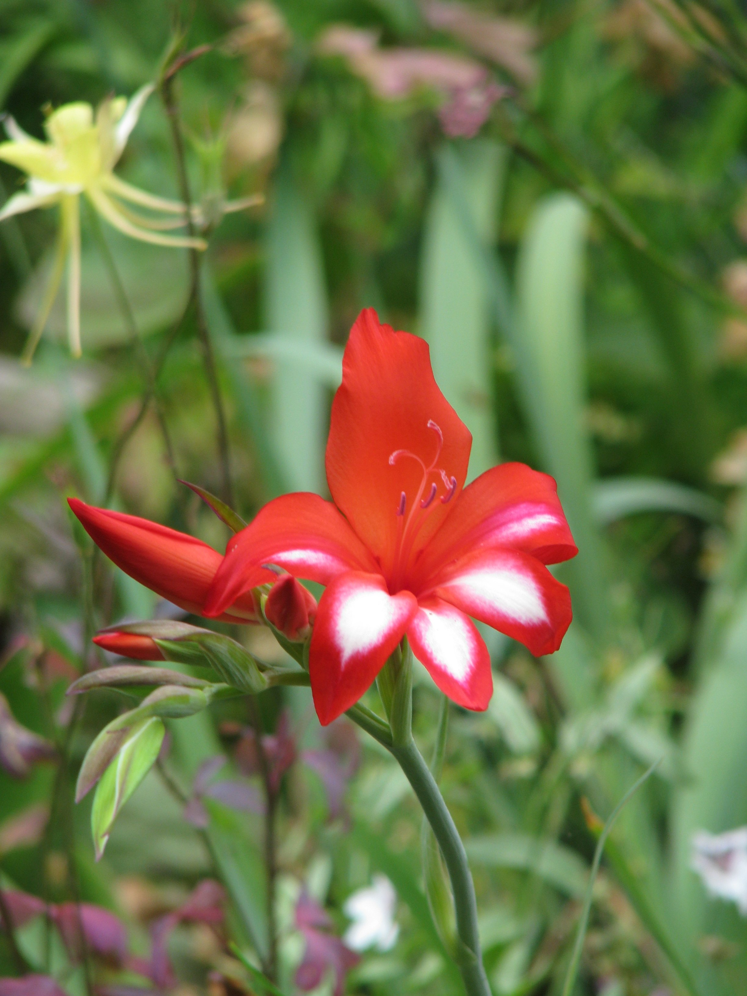 Bought three years ago from Agar's nursery in Hampshire and now, despite the severity of the last few winters, settled enough to flower. Very exciting.